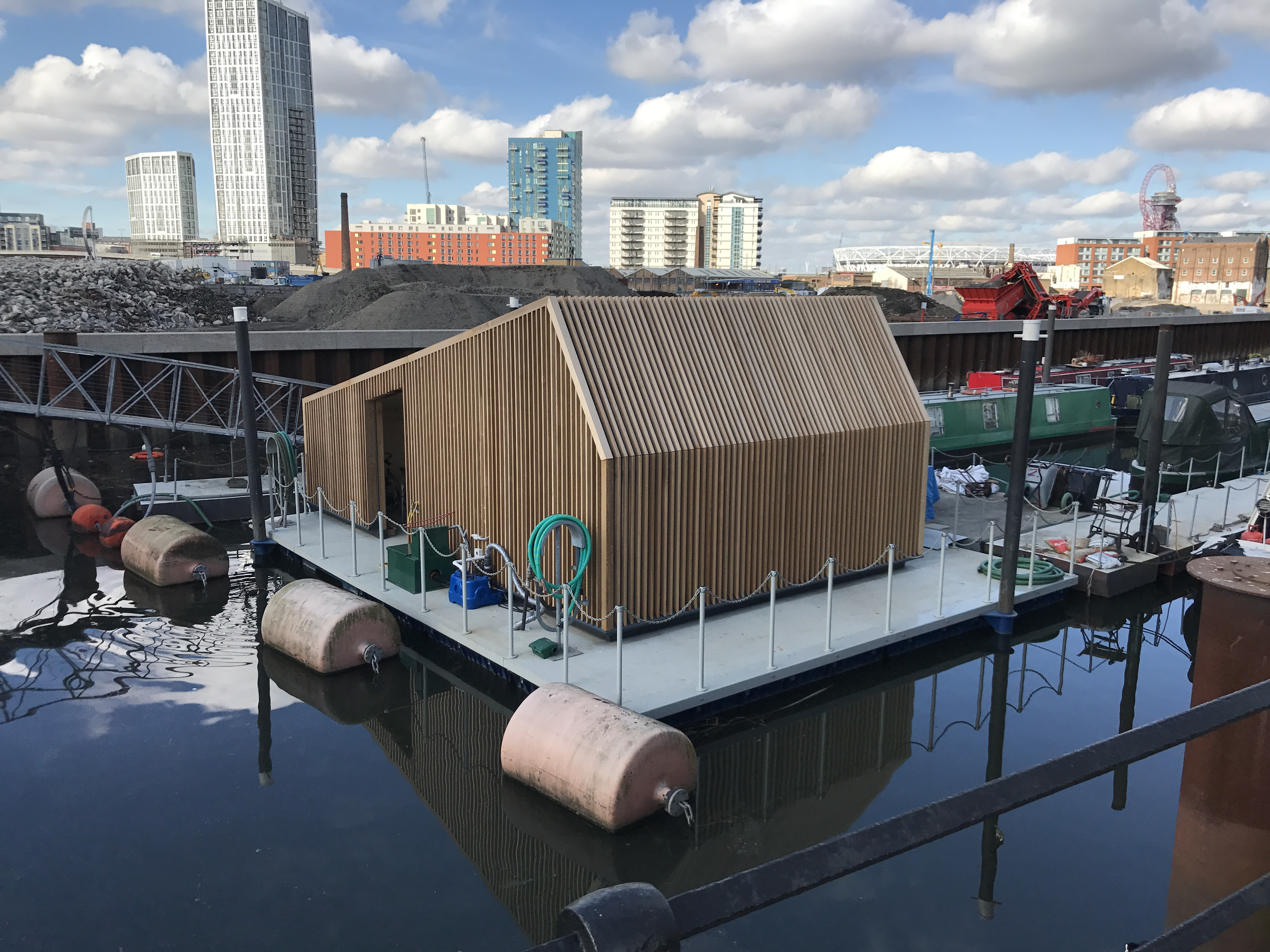 This floating laundry facility was created for the benefit of the community moored in their canal boats at Three Mills